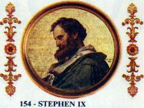 Portrait of Pope Stephan IX in the Basilica of Saint Paul Outside the Walls, Rome